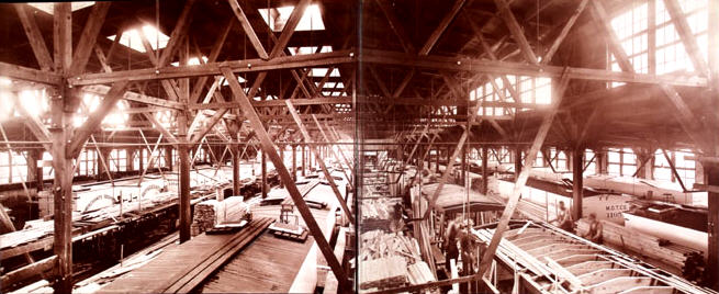 MDT's East Rochester, New York Car Shops, circa 1905. Lycurgus S. Glover, photographer. img URL